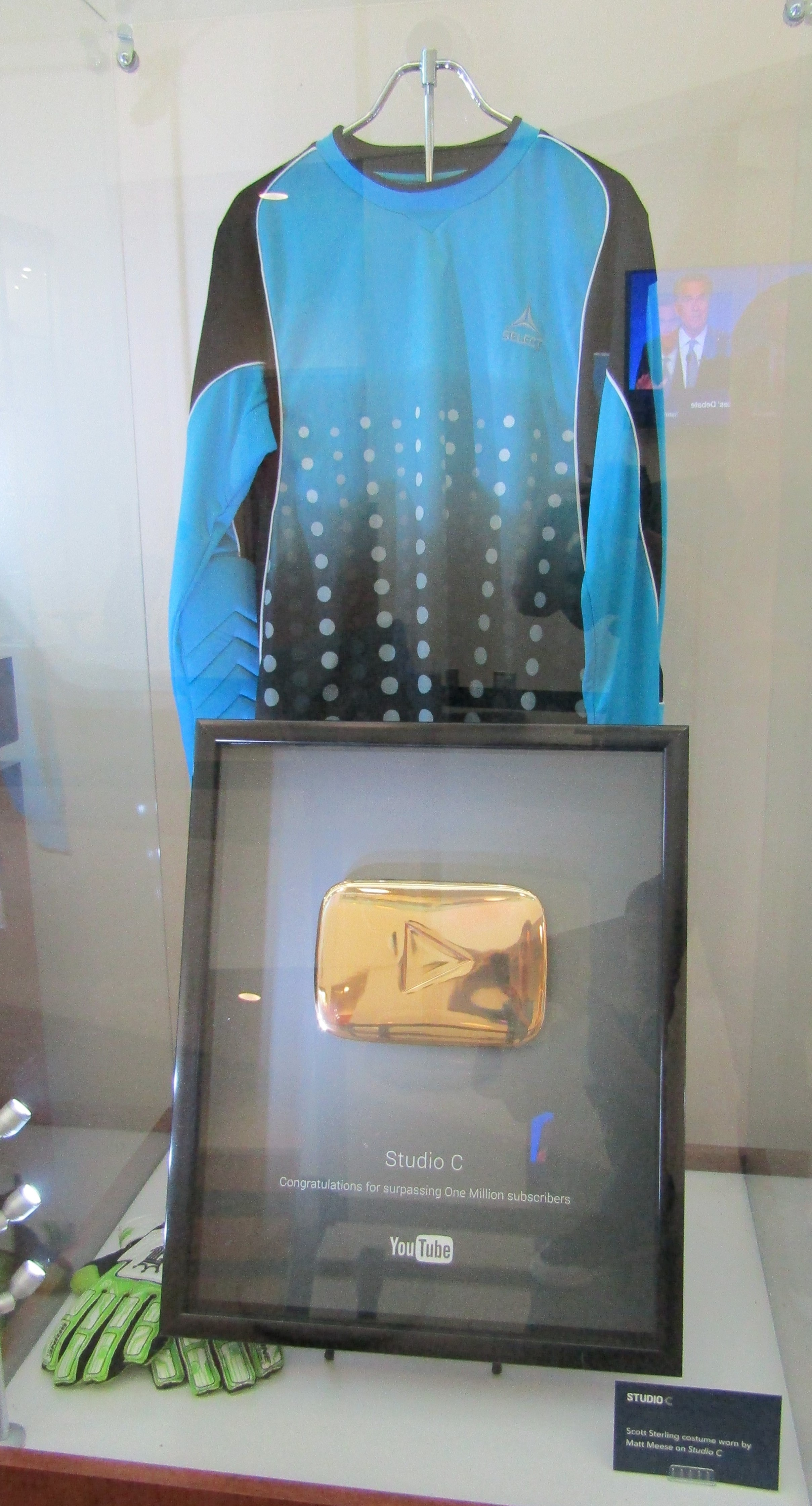 Scott Sterling costume and Golden Play Button for BYUtv's Studio C.